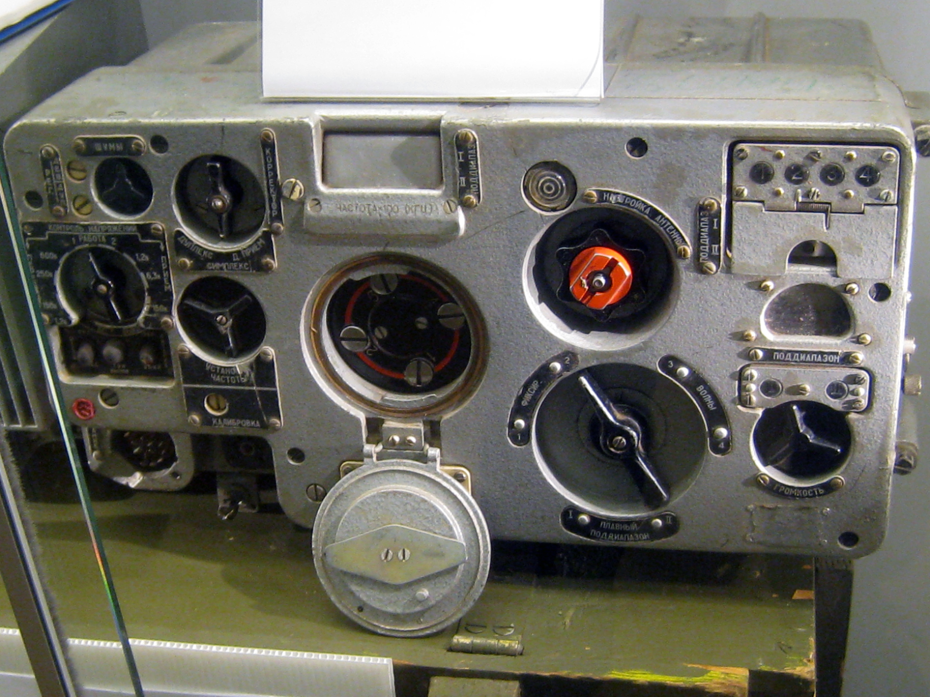 Soviet armed forces tank radio station R-123 (20-51.5 MHz), museum of the Fort Reunthal, Switzerland.